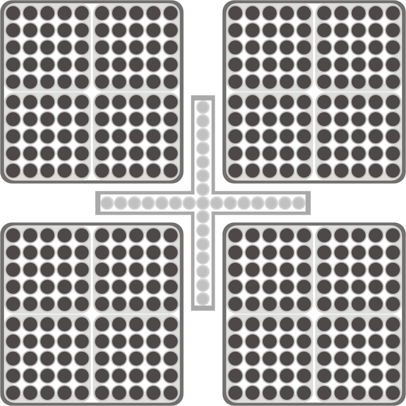 Nuclear power core